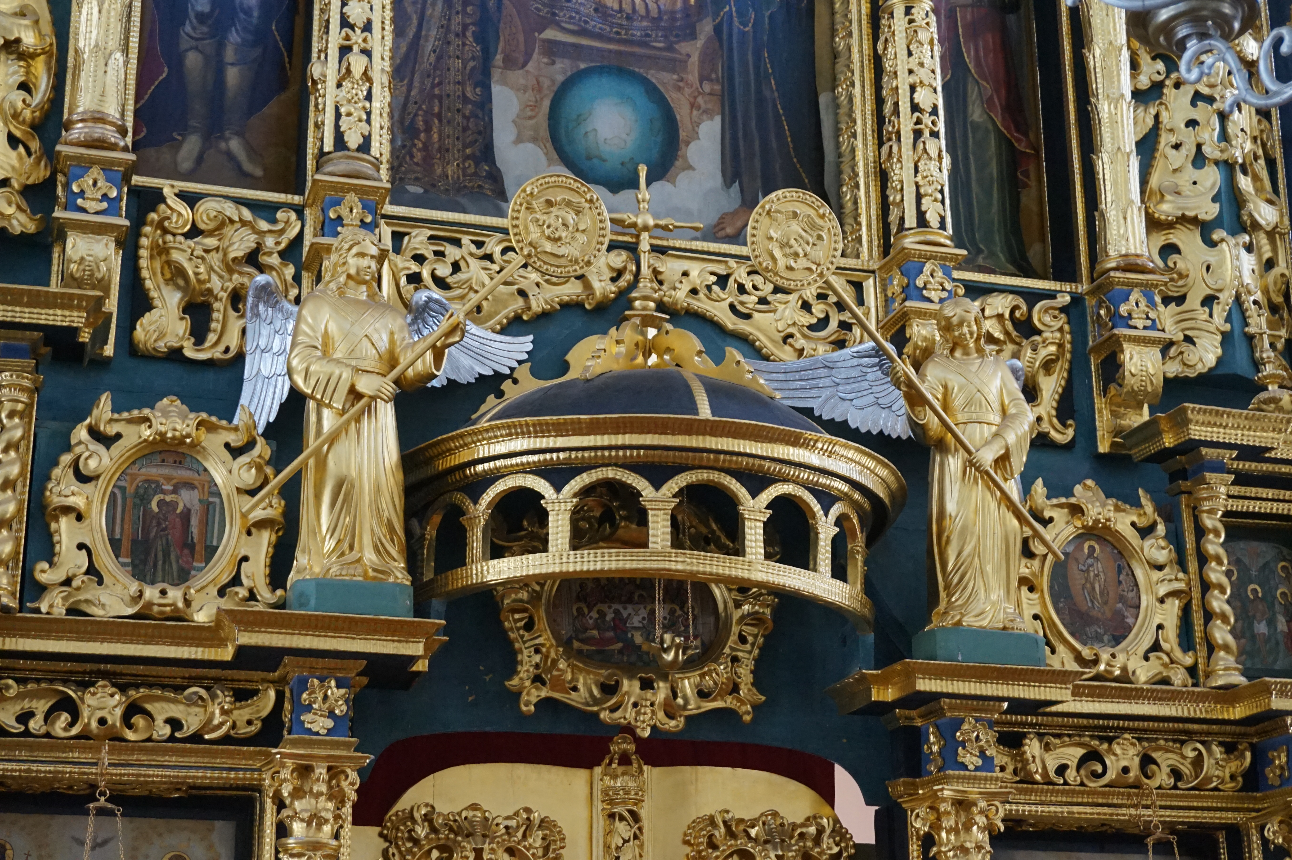 Фрагмент иконостаса церкви Спаса Преображения над северными воротами Новодевичьего монастыря (Преображенская надвратная церковь). Иконостас создан в конце 17 века под руководством иконописца и резчика Оружейной палаты Московского Кремля — Карпа Золотарёва.